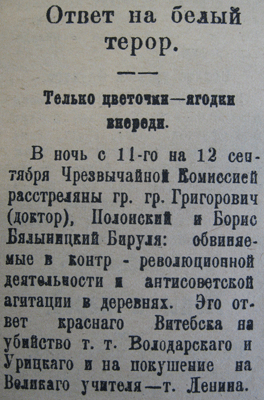 Newspaper article declaring the bolshevist commitment to "red terror" after the assassination of Cheka-leader Urizky in Petrograd and the assassination attempt on Lenin.